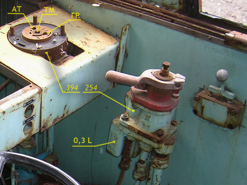 Valve mirror of train brake valve 394, locomitive brake valve 254 and horn valve. АТ — atmospheric canal, ТМ — brake pipe canal, ГР — main recevoirs canal